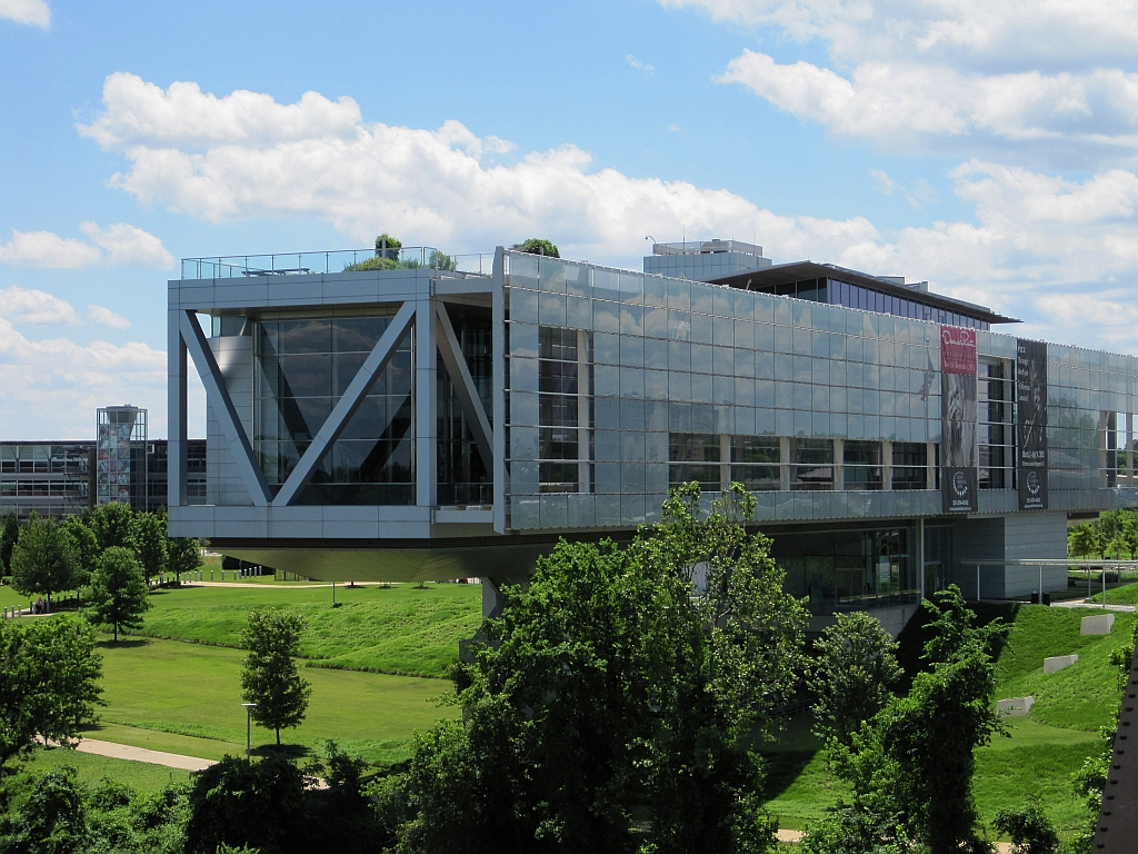 William J. Clinton Presidential Library